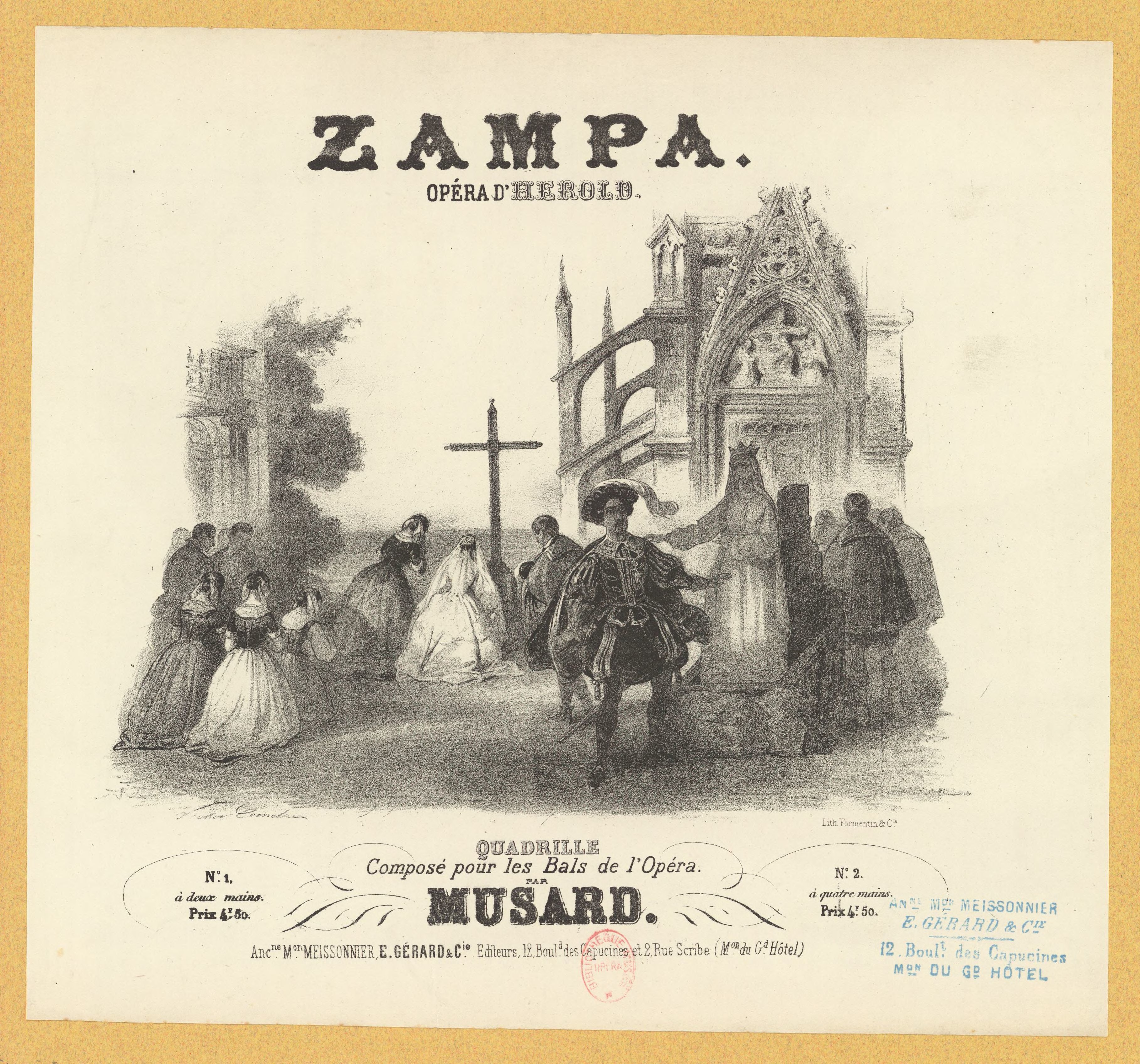 Ferdinand Hérold - Zampa - quadrille